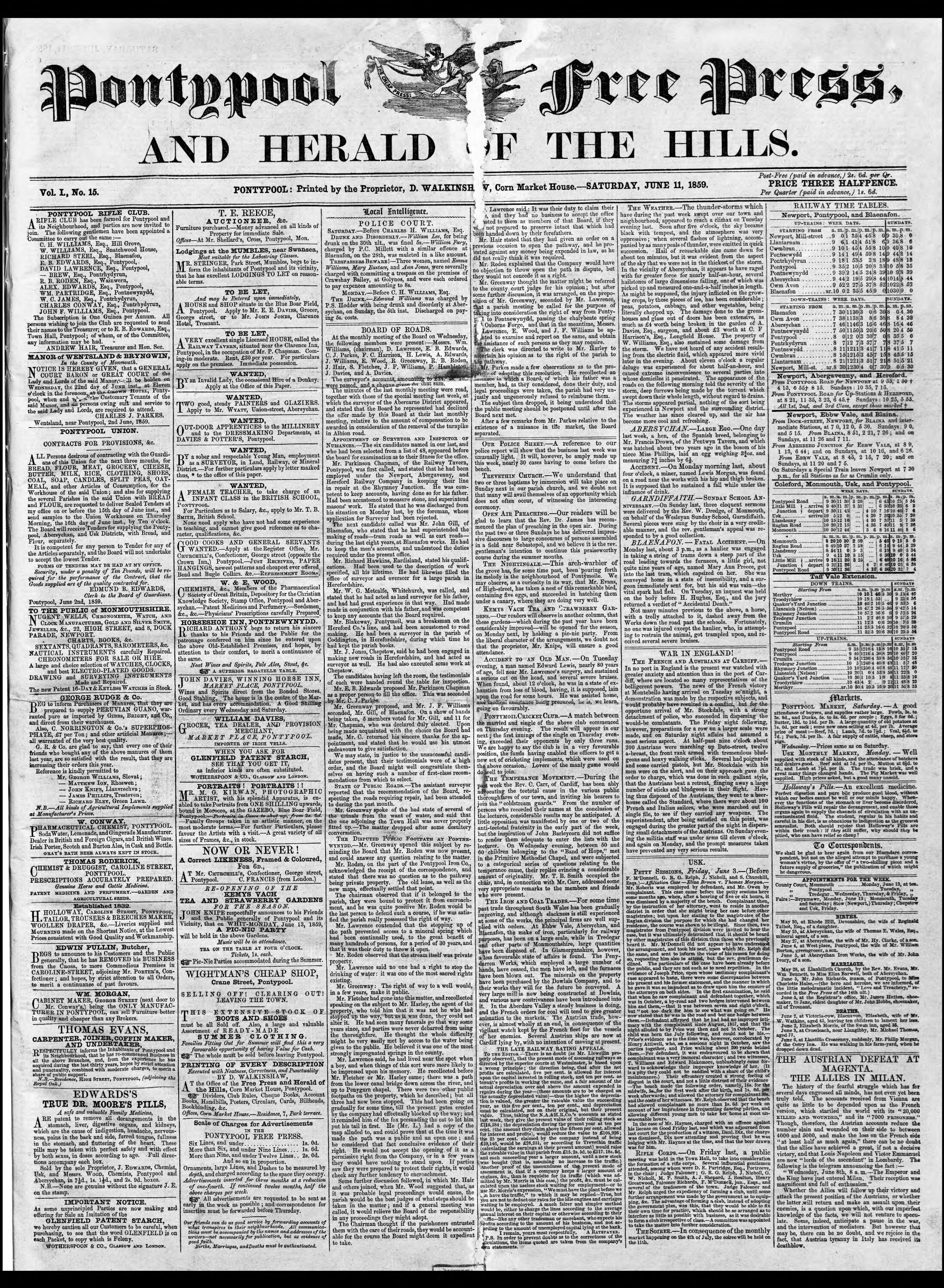 Front page of the earliest surviving copy of the Welsh newspaper Pontypool Free Press